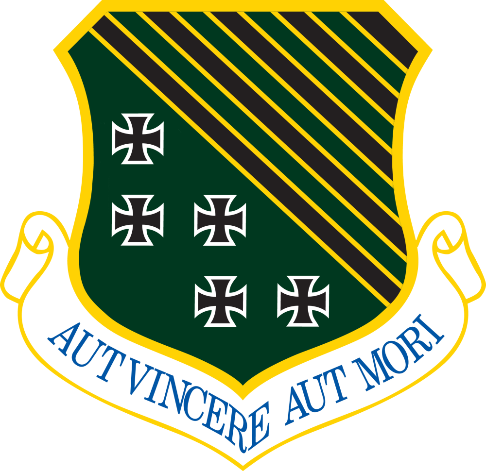 Emblem of the 1st Fighter Wing, a wing of the United States Air Force. The Latin motto "Aut Vincere Aut Mori" is translated as "Conquer or Die". Significance The green and black colors represent the colors of the Army Air Service, the five stripes signify the original five flying squadrons, and the five crosses symbolized the five major World War I campaigns credited to the group.